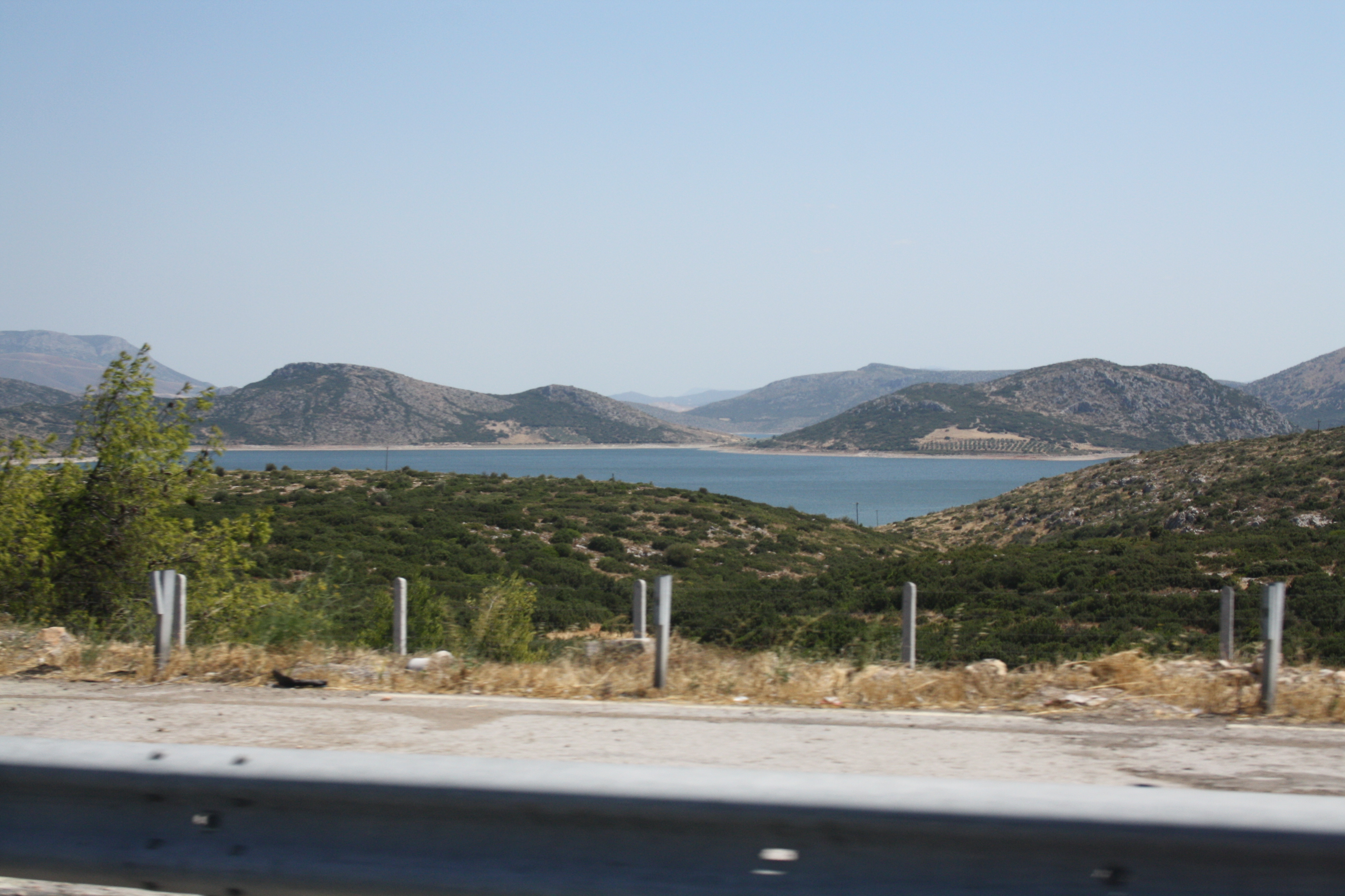 This is a photography of Natura 2000 protected area with ID GR2410001